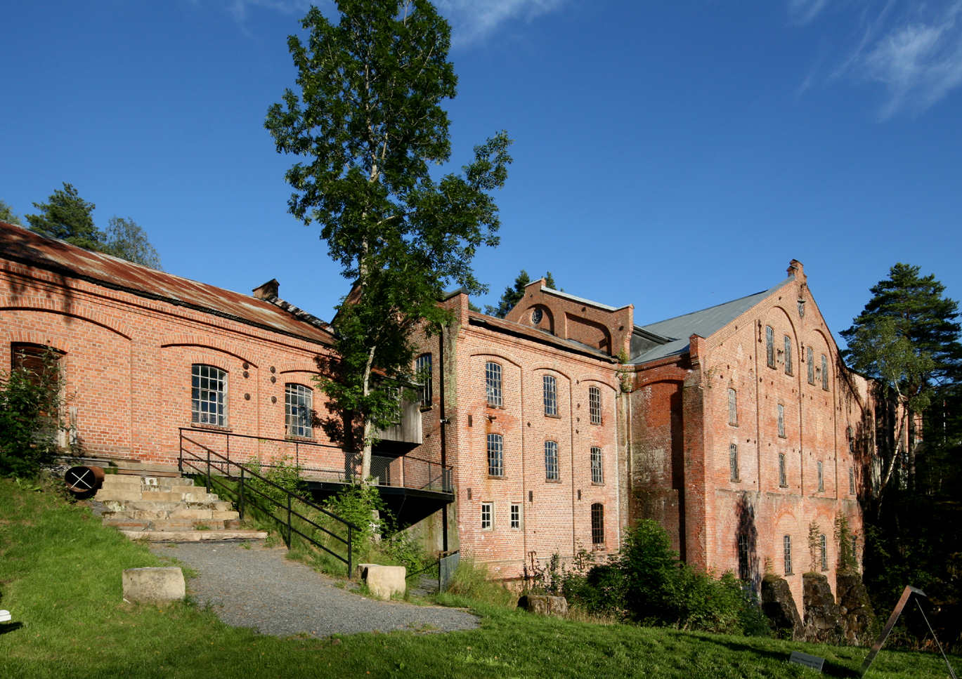 Kistefoss tresliperi (pulp mill), Jevnaker, Norway. Kistefos-Museet